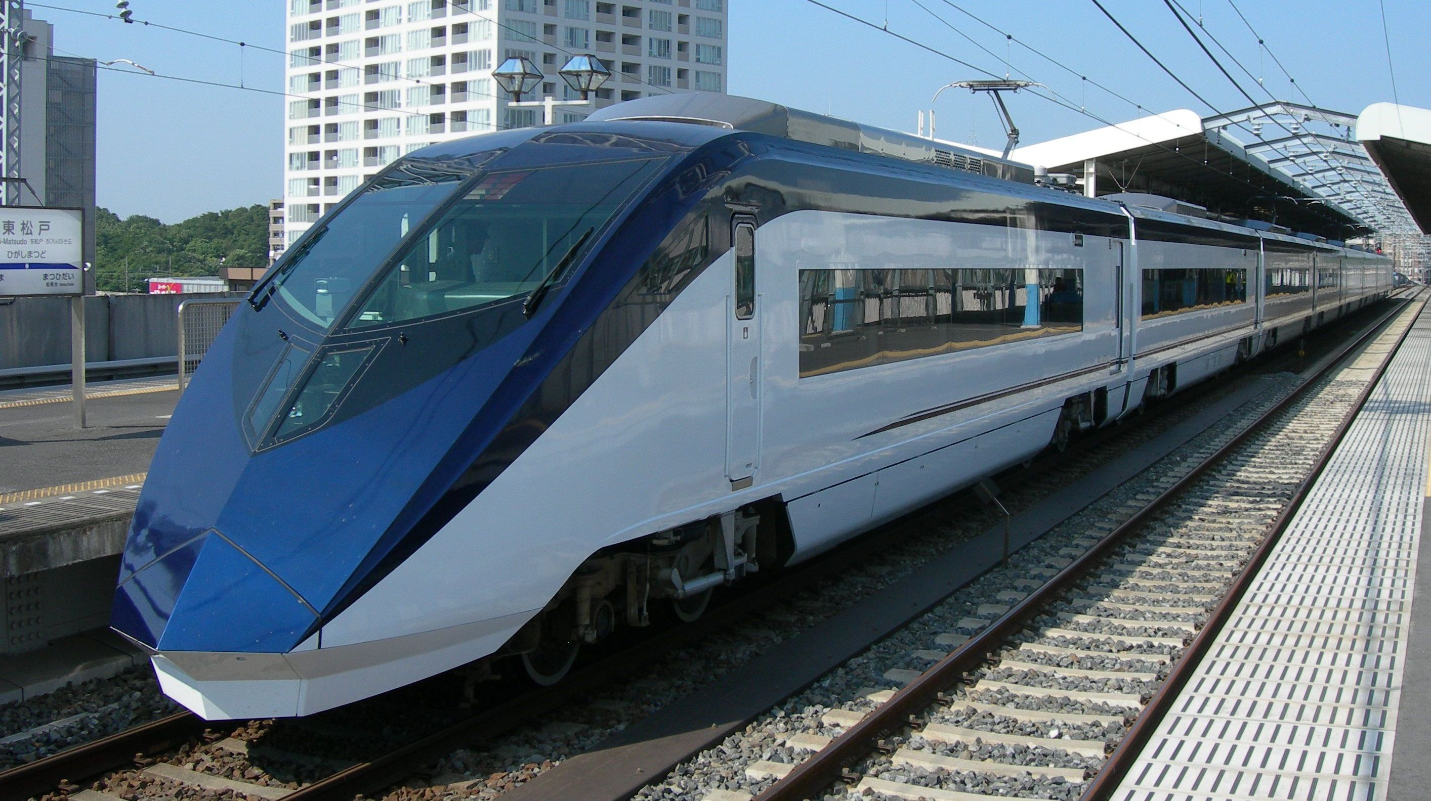 Keisei AE series "Skyliner" EMU at Higashi-Matsudo Station